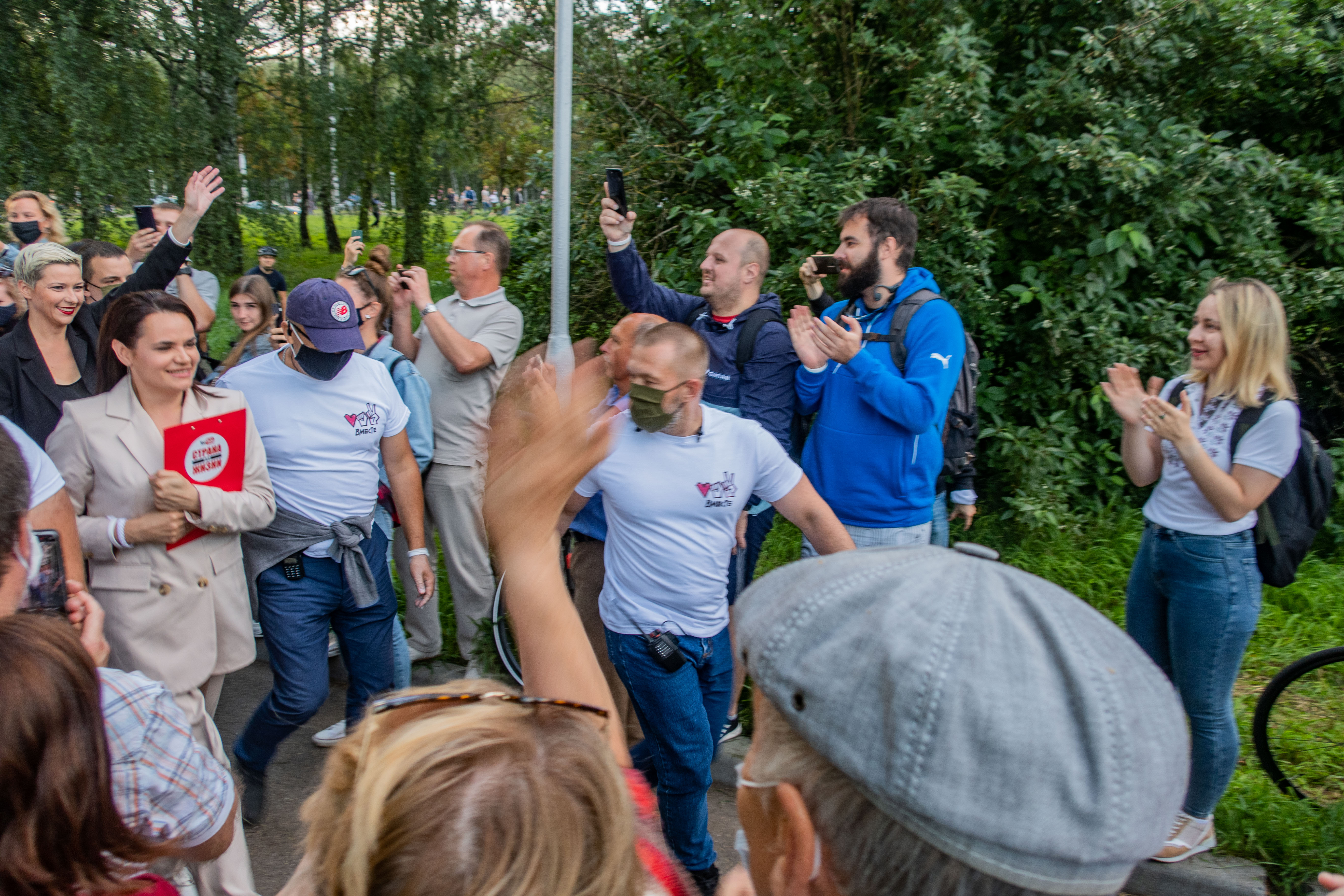 Rally in support of Sviatlana Tsikhanoŭskaya and the joint campaign headquarters. 30 July 2020, Minsk, Belarus